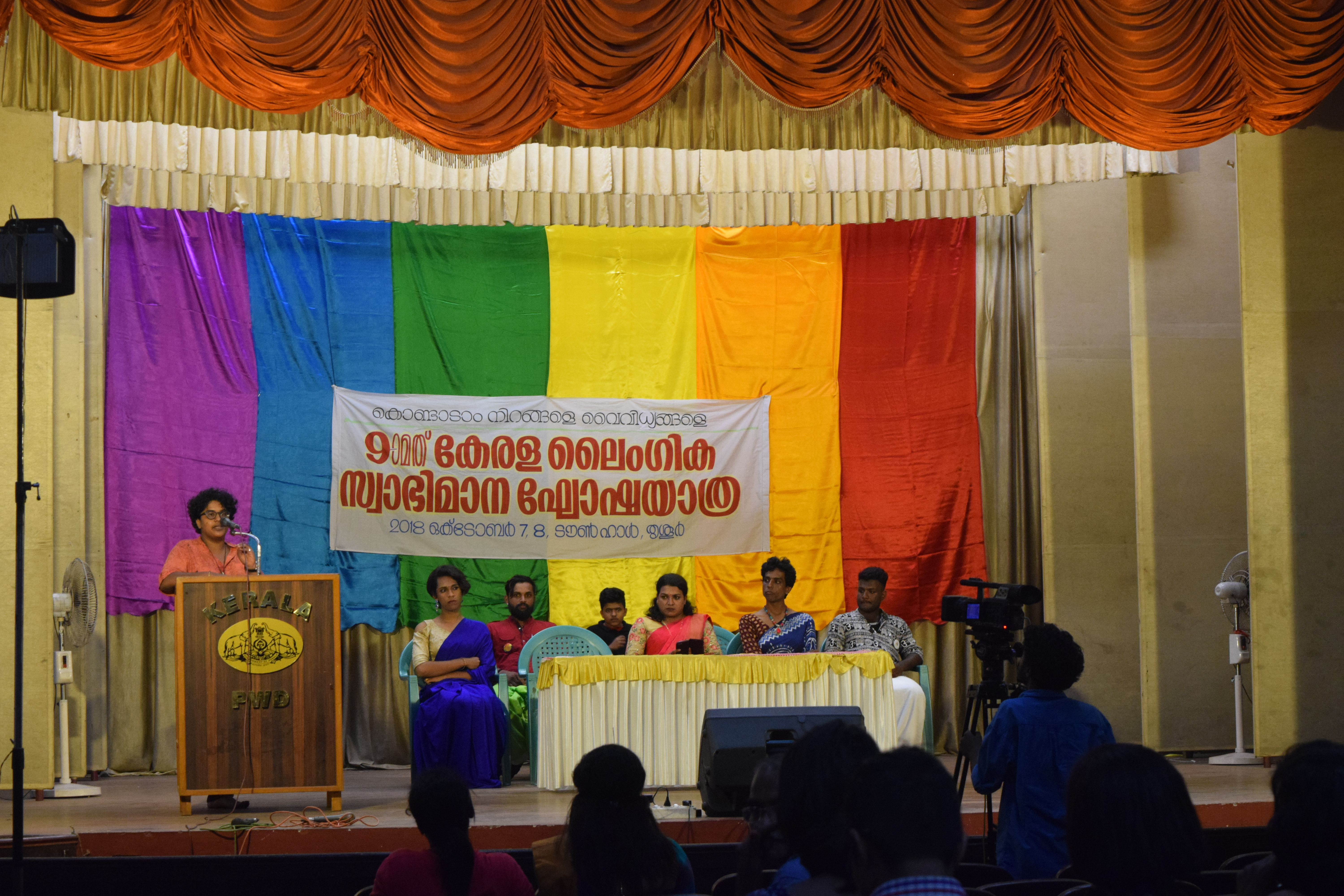 9th kerala pride celebrations